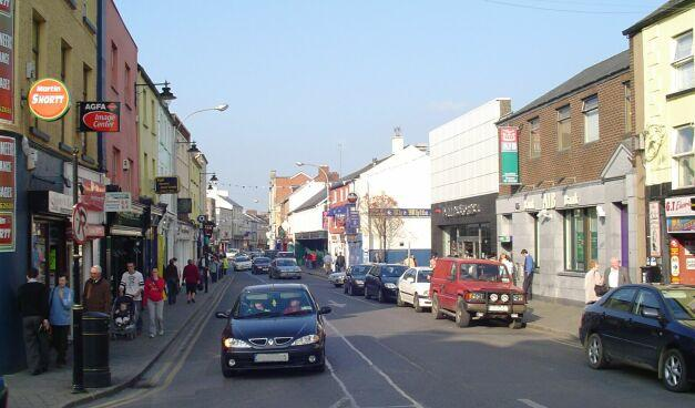 Cavan, Ireland, towncentre on a regular day.